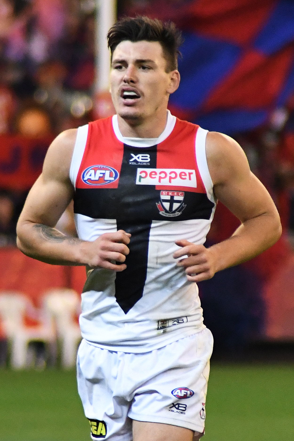 Josh Battle of St Kilda during the 2019 AFL round 5 match between Melbourne and St Kilda at the Melbourne Cricket Ground on Saturday, 20 April 2019 in Melbourne, Victoria.